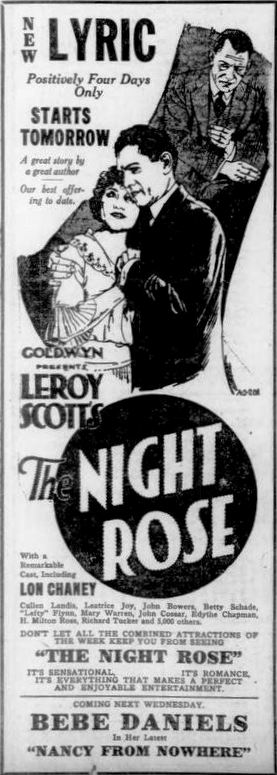 Newspaper advertisement for the American crime drama film Voices of the City (1921) (ad uses the film's alternate title The Night Rose) with Leatrice Joy, John Bowers, and Lon Chaney, on page 4 of the February 24, 1922 Duluth Herald.